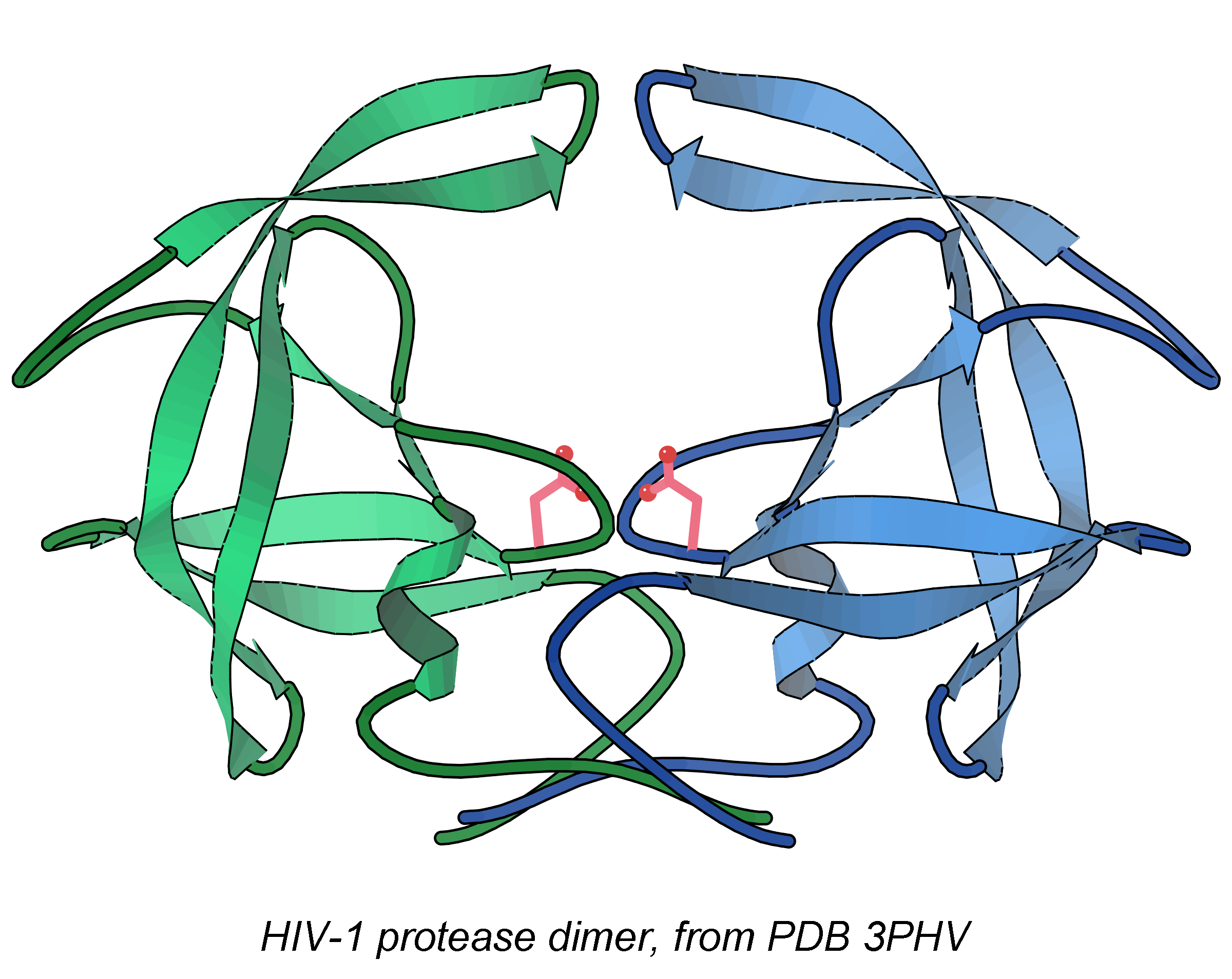 Ribbon schematic of the HIV-1 protease dimer, with the two chains in green and blue and the active-site Asp sidechains in pink. The "flaps" that cover the substrate or drug binding site are at the top, and the intertwined beta structure that forms the dimer is at bottom. Image made in KiNG, from PDB file 3PHV.